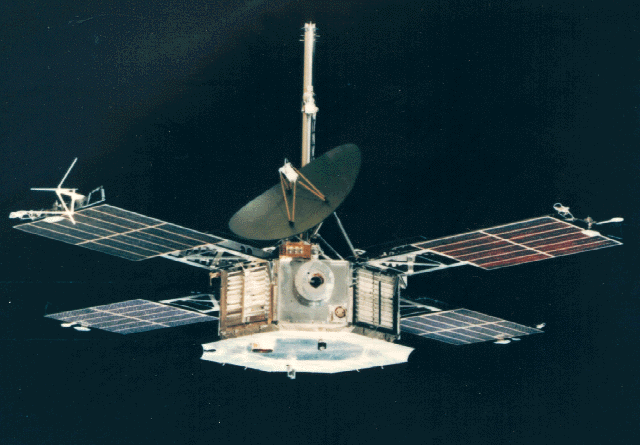 Picture of Mariner 5.